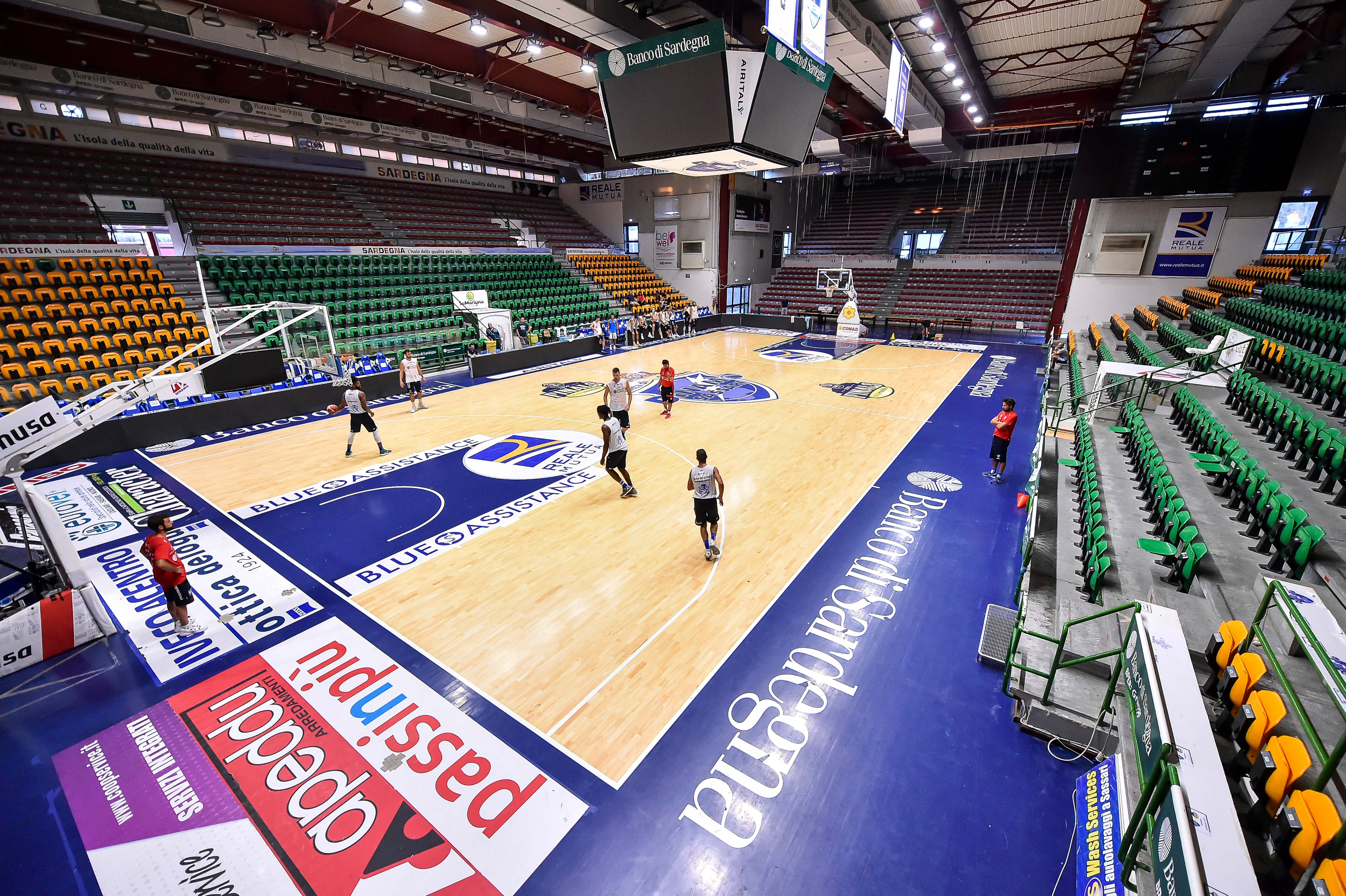 Panoramica Primo Allenamento PalaSerradimigni Banco di Sardegna Dinamo Sassari LBA Serie A 2019-2020 Sassari, 18/08/2019 Foto L.Canu / Ciamillo-Castoria